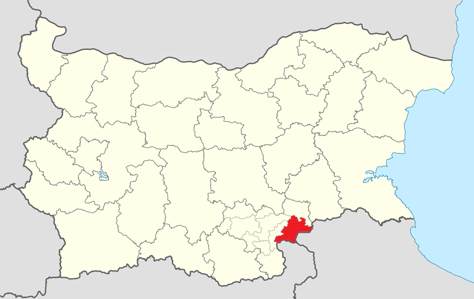 Location map of Svilengrad Municipality within Bulgaria and Haskovo Province